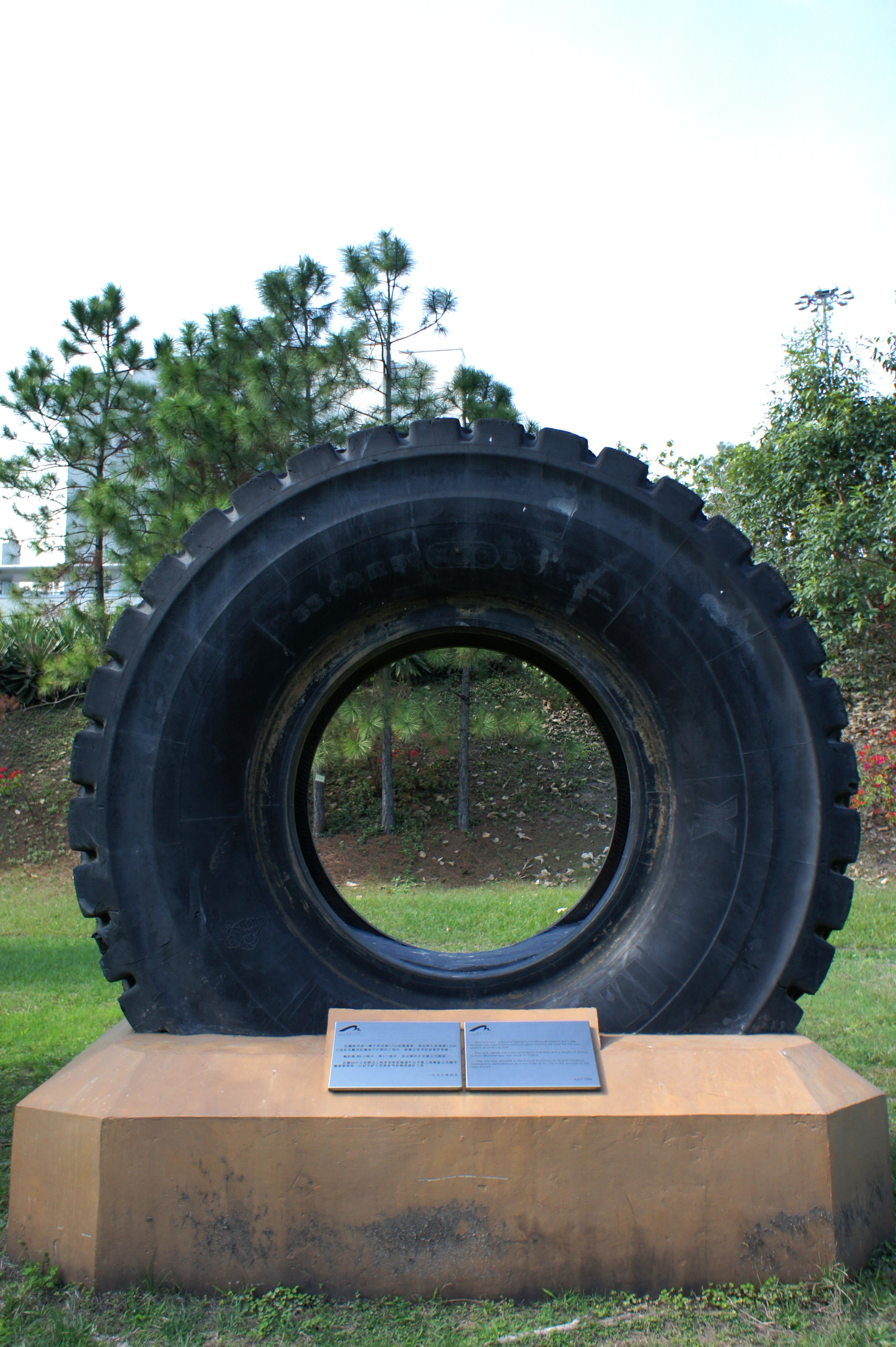 A tyre exhibit in the Hong Kong International Airport Historical Garden. This tyre comes from a Caterpillar C785 truck used in the 1,248 hectare site preparation contract which formed the land for the Hong Kong International Airport at Chek Lap Kok. The tyre, which has a circumference of 870cm and a height of 277cm, is from Michelin and was made in France.